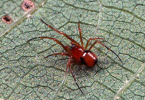 male Chrysso albipes from Okinawa.